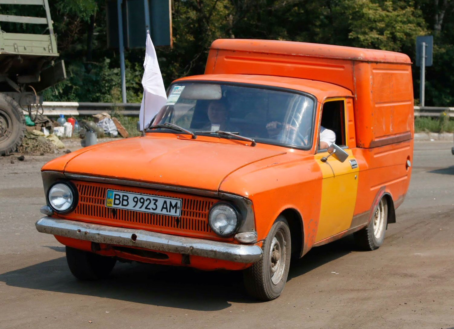 War in Donbass